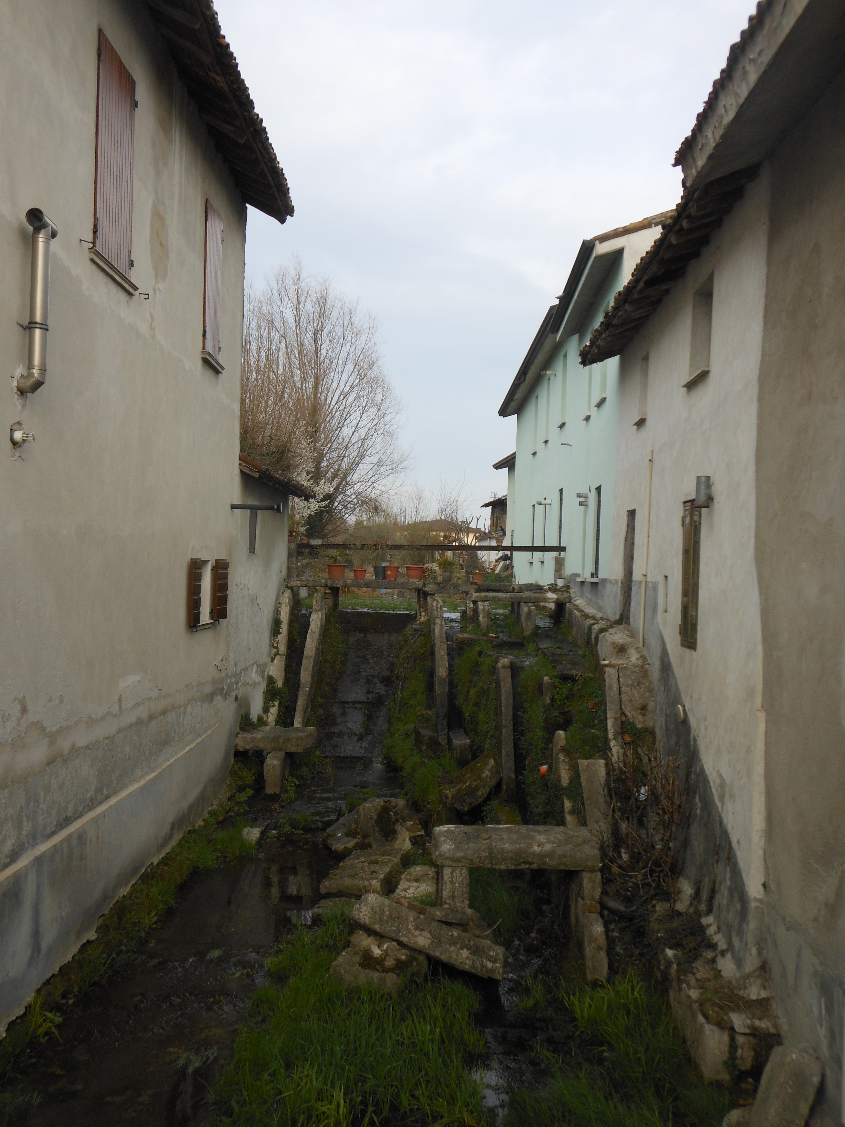 mulini 03